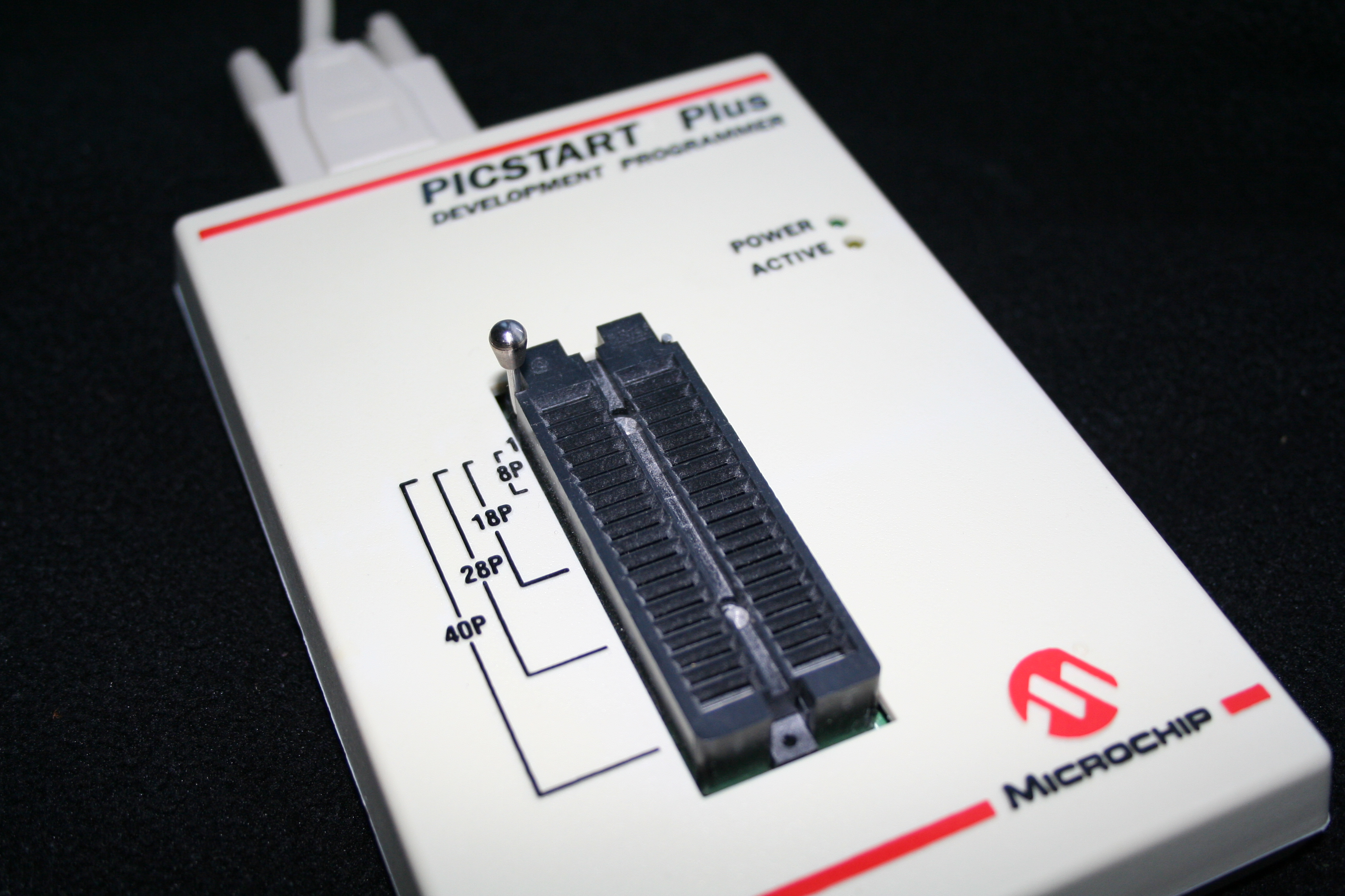 A PICStart Plus PIC micro controller programmer.